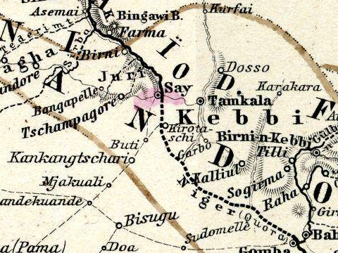 Kirotaschi (Kirtachi) in Adolf Stielers Handatlas, 1891.